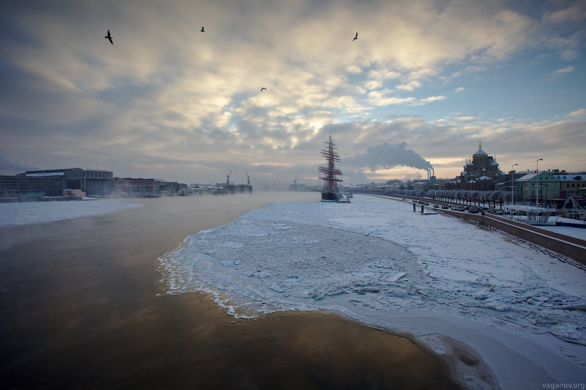 Sunset over Neva river. Saint Petersburg, Russia. Photo by Anton Vaganov.